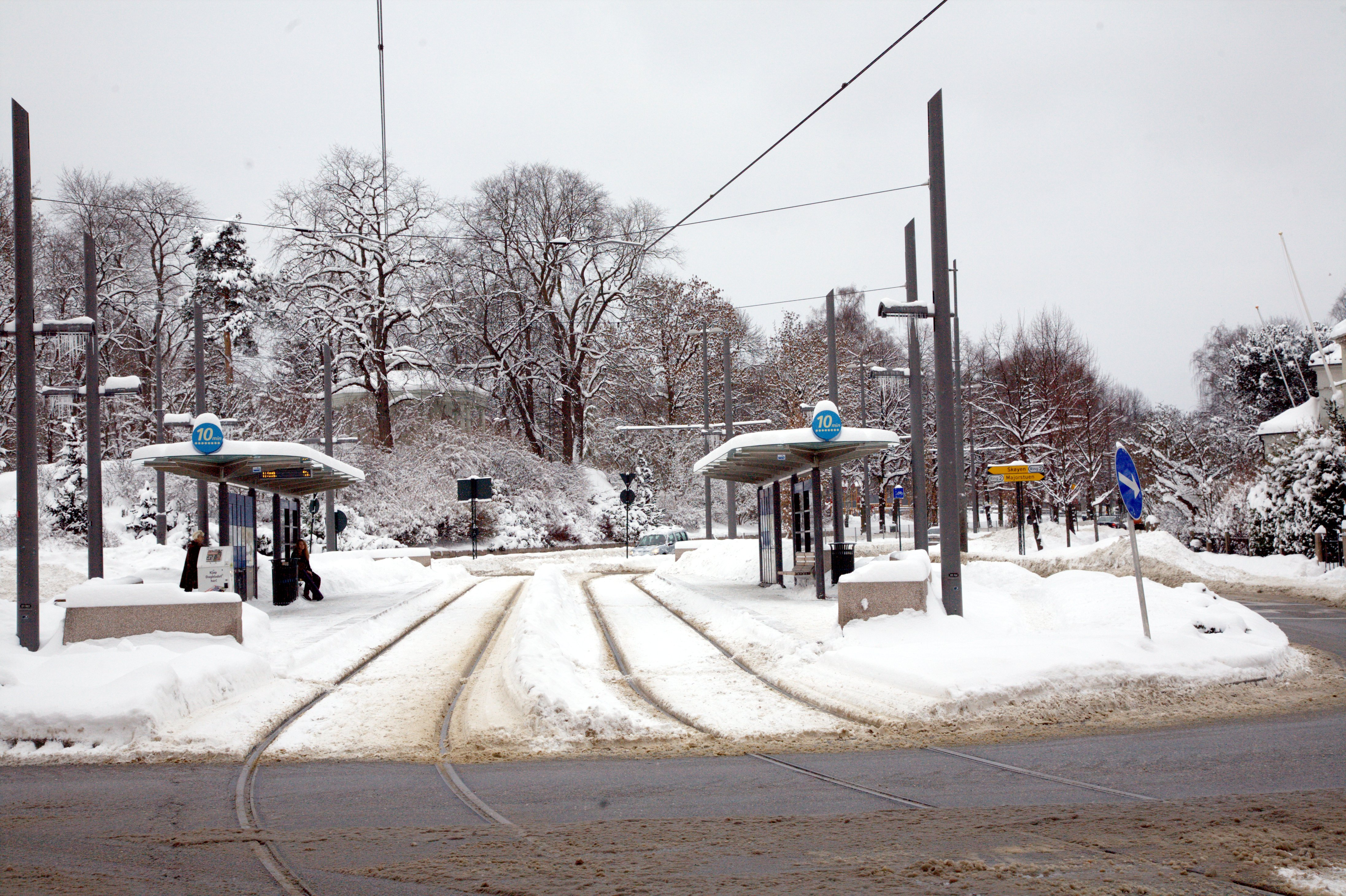 Frogner plass in winter